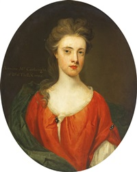 Portrait of Armine Crew (died 1728), daughter of Thomas Crew, 2nd Baron Crew, future wife of Thomas Cartwright (1671–1748), English politician.